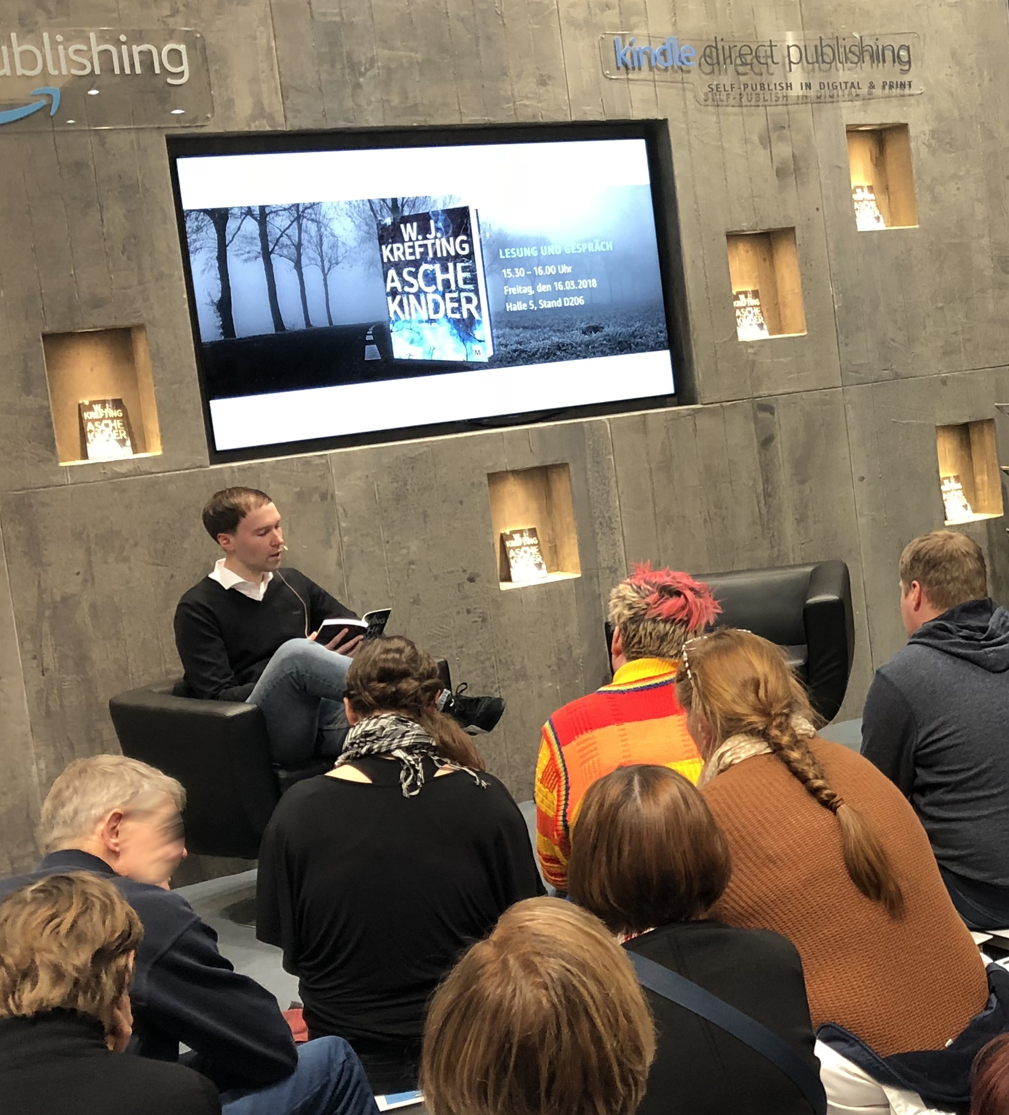 The German author Wilhelm J. Krefting at Leipziger Buchmesse March 2018